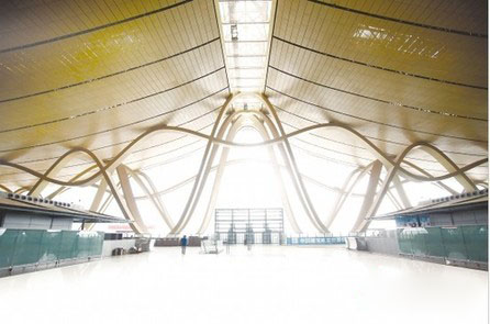 The steel structure of new Kunming airport